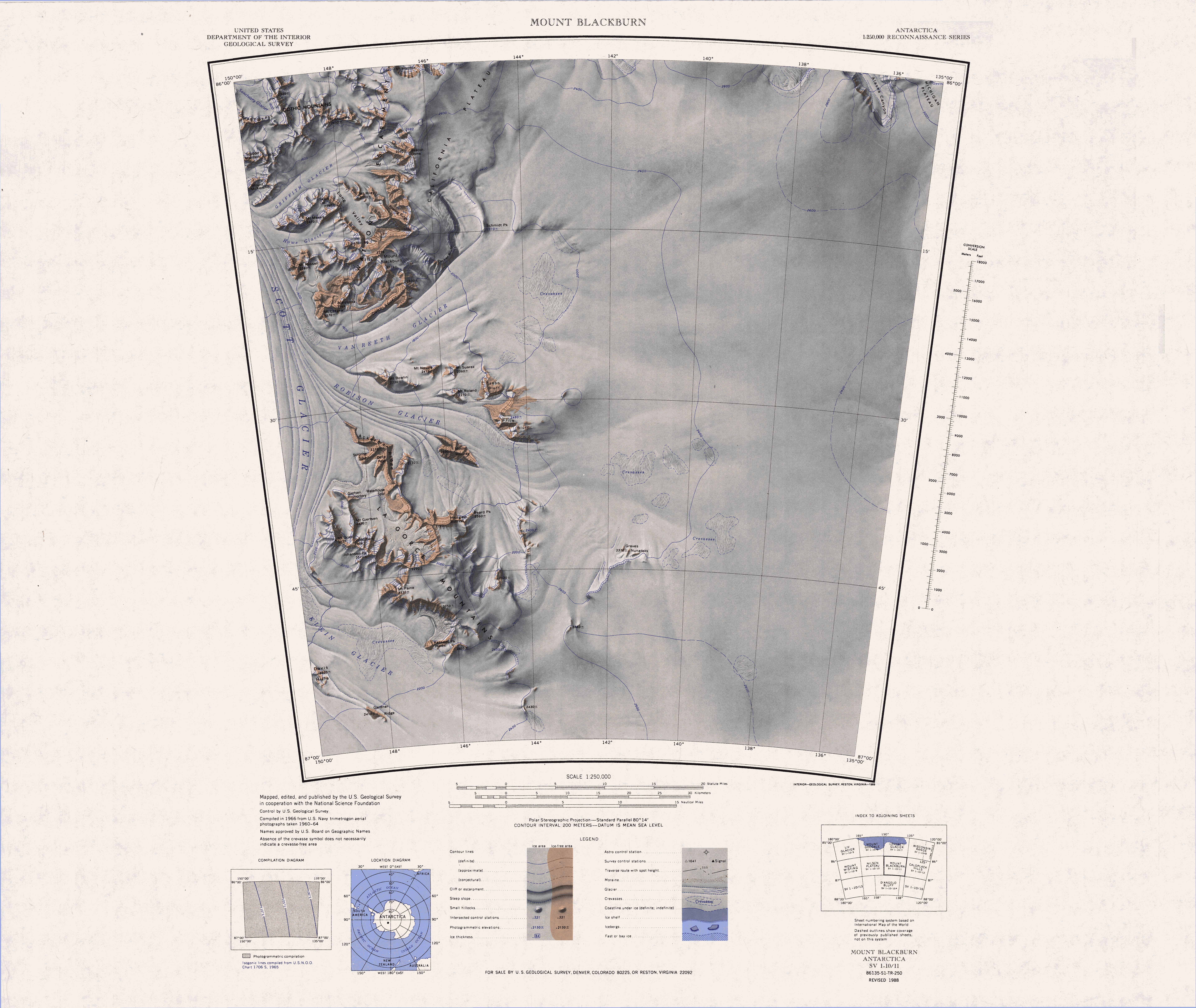 Map of Antarctica by the United States Antarctic Resource Center of the US Geological Society.